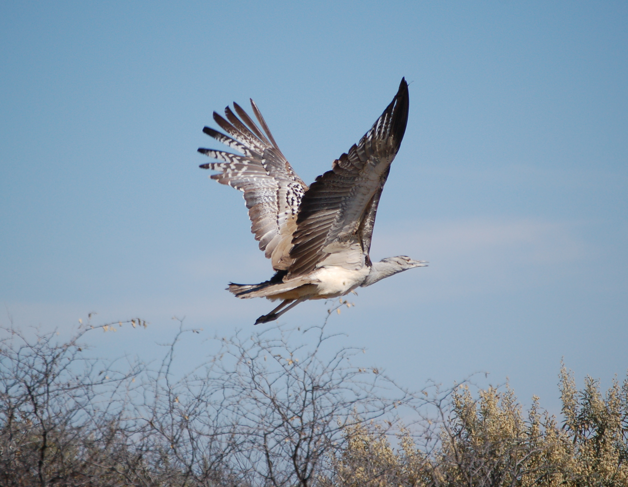 The Kori Bustard (Ardeotis kori) north-east of Windhoek, Namibia, Africa.